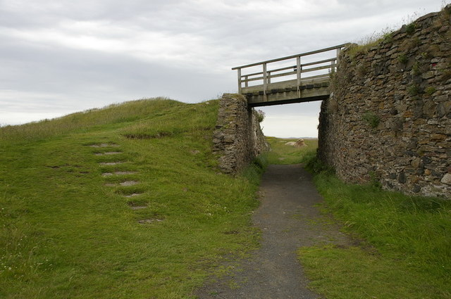 Bridge east of Lindisfarne Castle